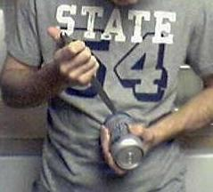 A beer can is opened with a knife for shotgunning.